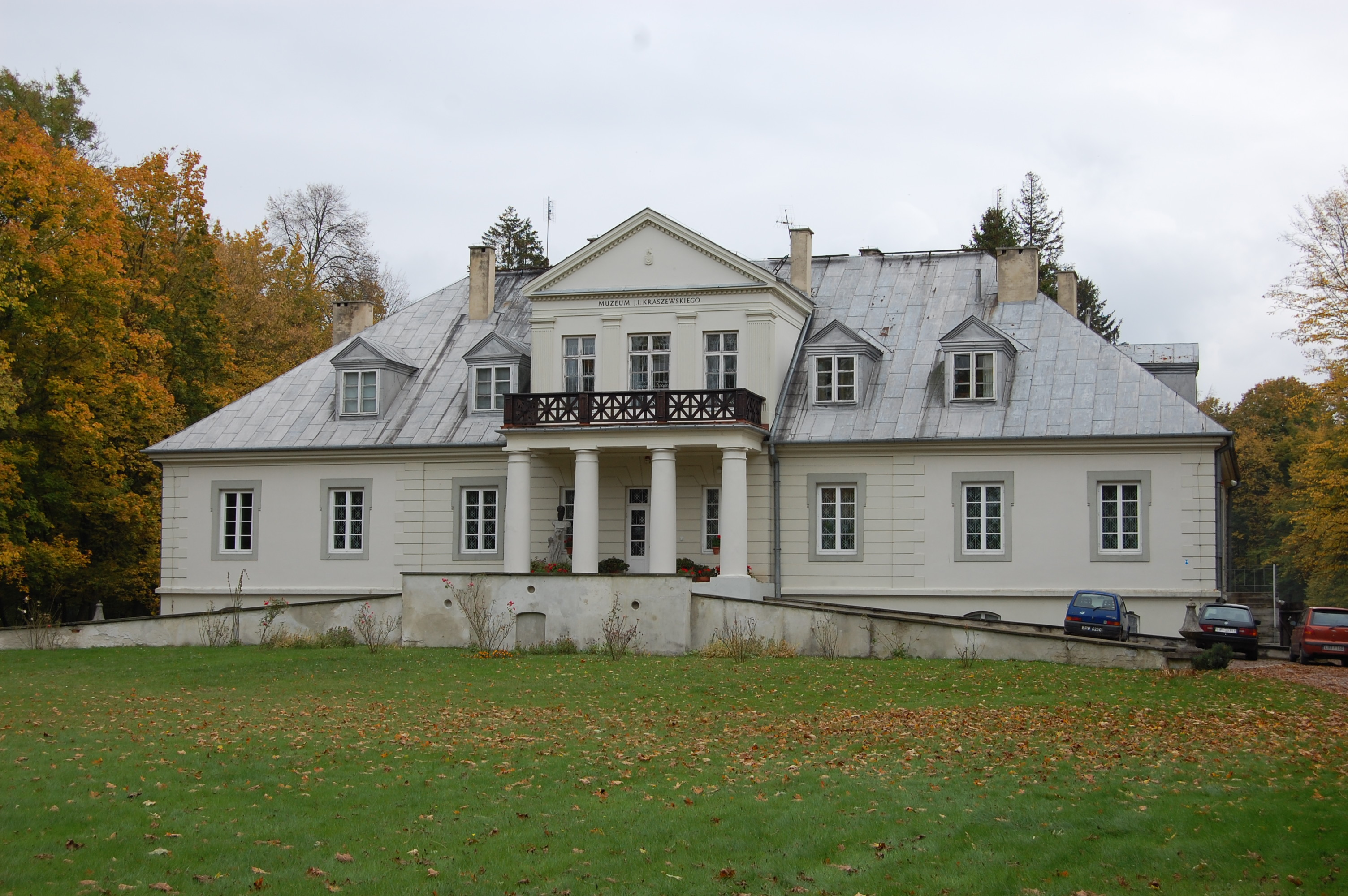 Museum of Józef Ignacy Kraszewski (Polish writer) in Romanów.